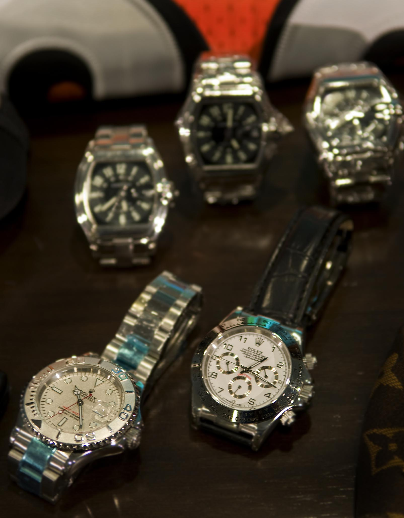 Counterfeit Rolex watches seized by the US CBP